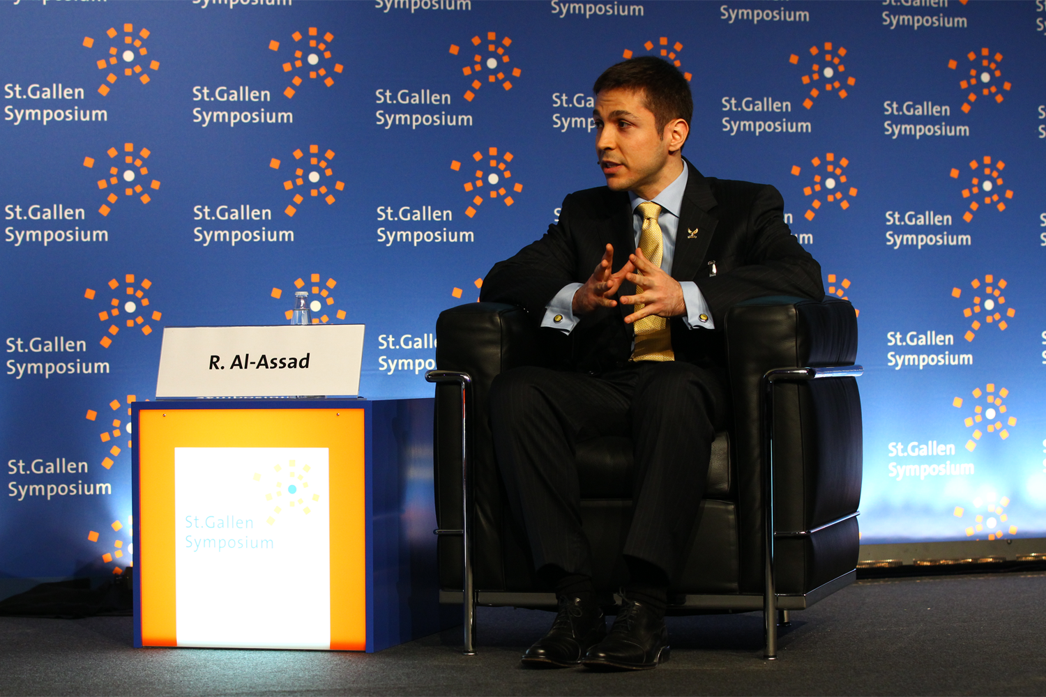 Ribal al-Assad in May 2011 at the 41. St. Gallen Symposium at the University of St. Gallen